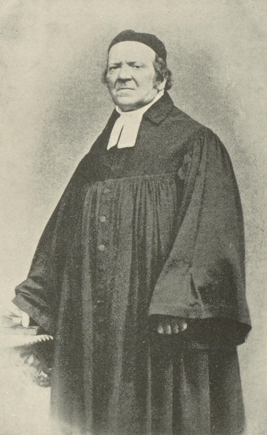 Albert Sigismund Jaspis, scan from D. Albert Sigismund Jaspis : Generalsuperintendent von Pommern. Stettin: Burmeister 1895 (Bilder aus dem kirchlichen Leben und der christlichen Liebesthätigkeit in Pommern; Bd.1, Nr.9)